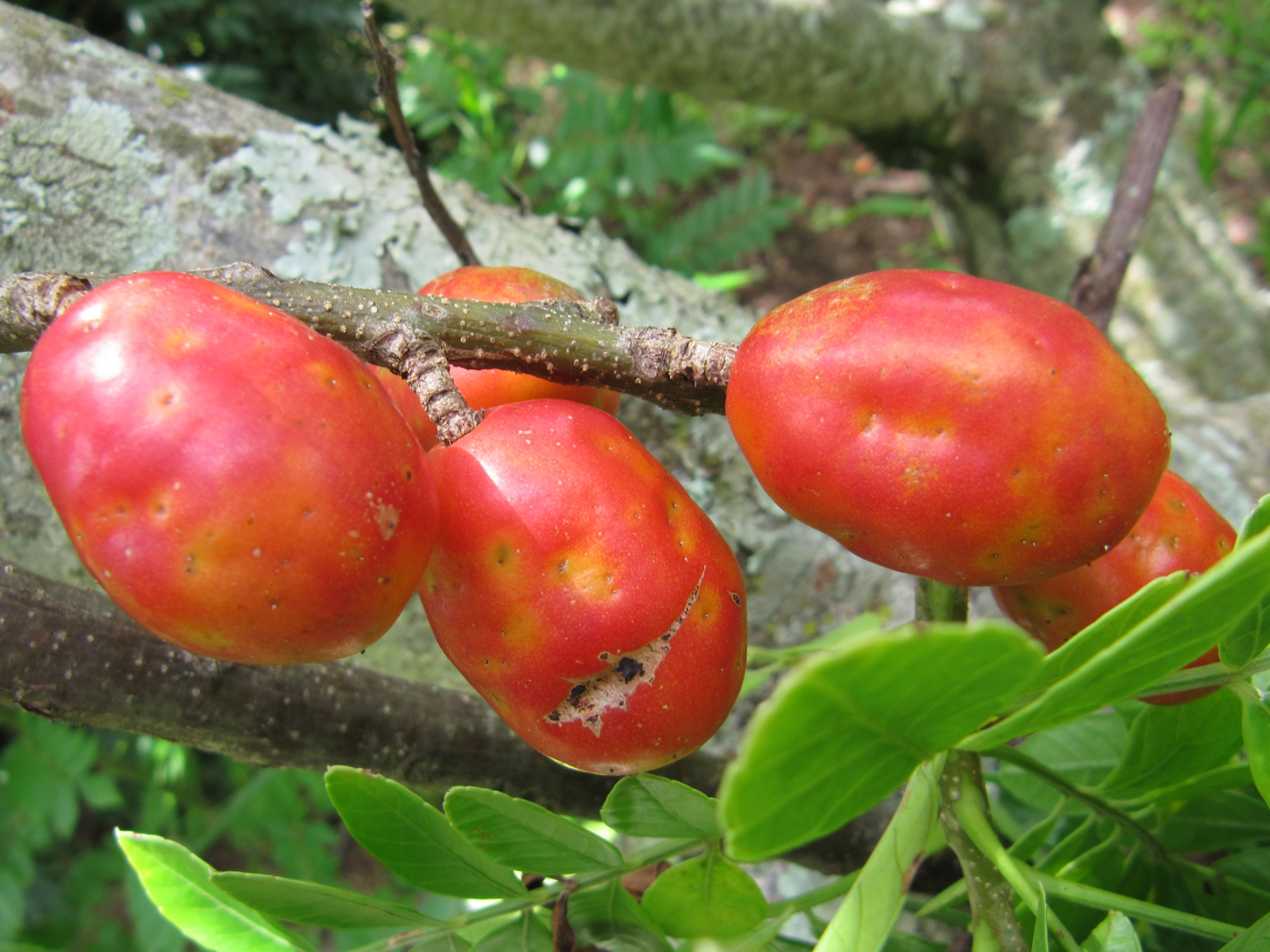 Ripe fruits of jocote (Spondias purpurea). Spotted in São Carlos, Brazil.